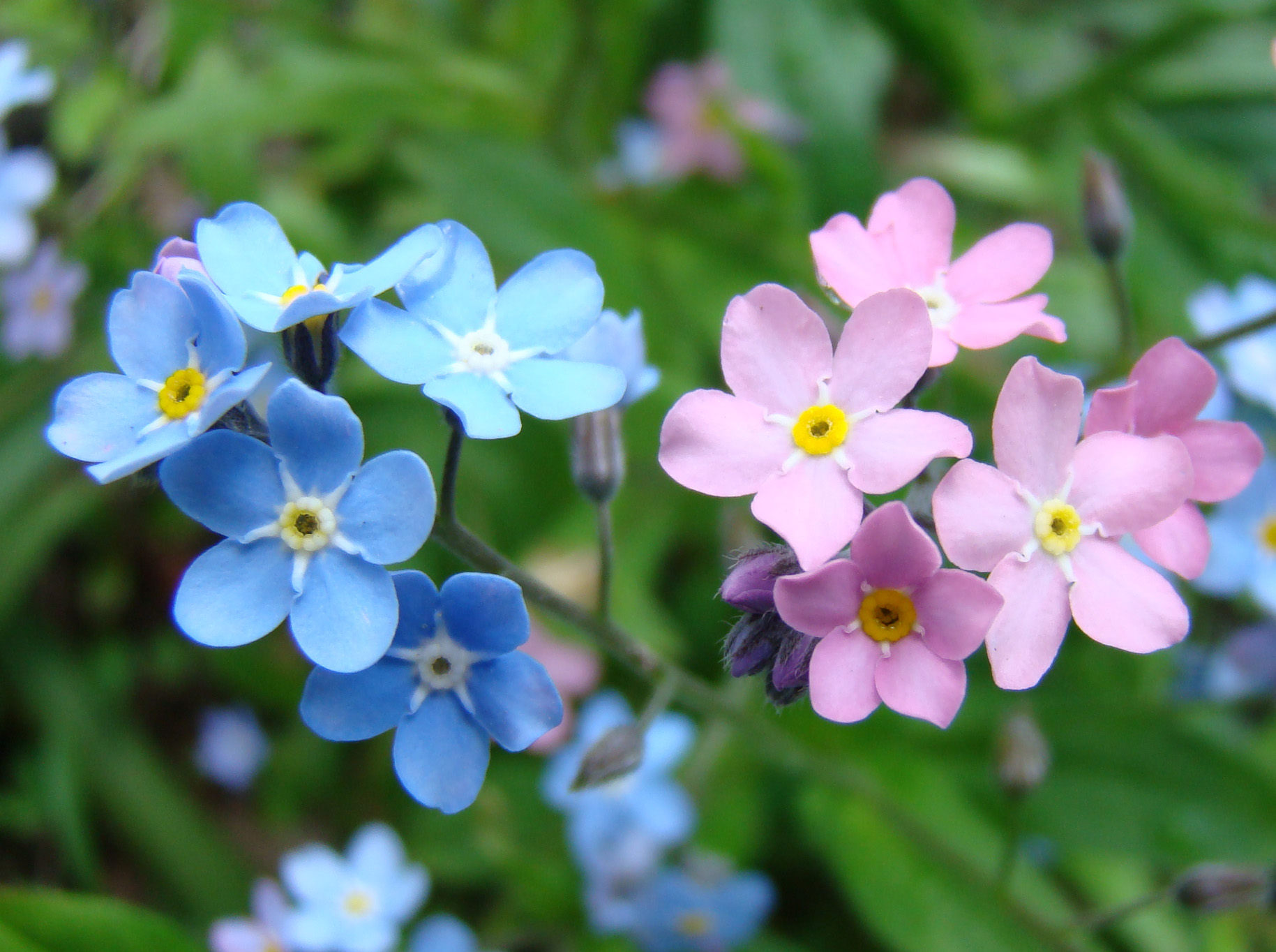 Forget-me-not (Myosotis alpestris)